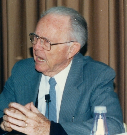 Eugene Nida lecturing in Vic, Catalonia